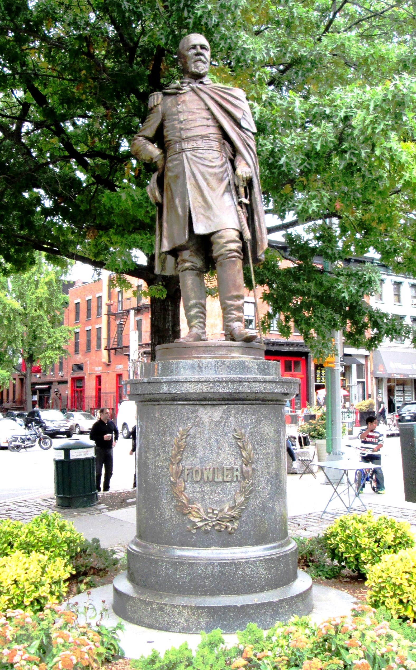 Fowler Square, located at the intersection of Lafayette Avenue and Fulton Street at Fort Greene Place in the Fort Greene neighborhood of Brooklyn, New York City, was formerly named Lafayette Square. It features a statue of Civil War hero Brigadier General Edward Fowler by sculptor Henry Baerer, which was dedicated in 1902. In the 1960s the statue had suffered deterioration and was removed to storage for safekeeping; it was restored to its place in 1976 and conserved in 2005. The square itself was renovated in 2010. (Sources: [1] and [2])